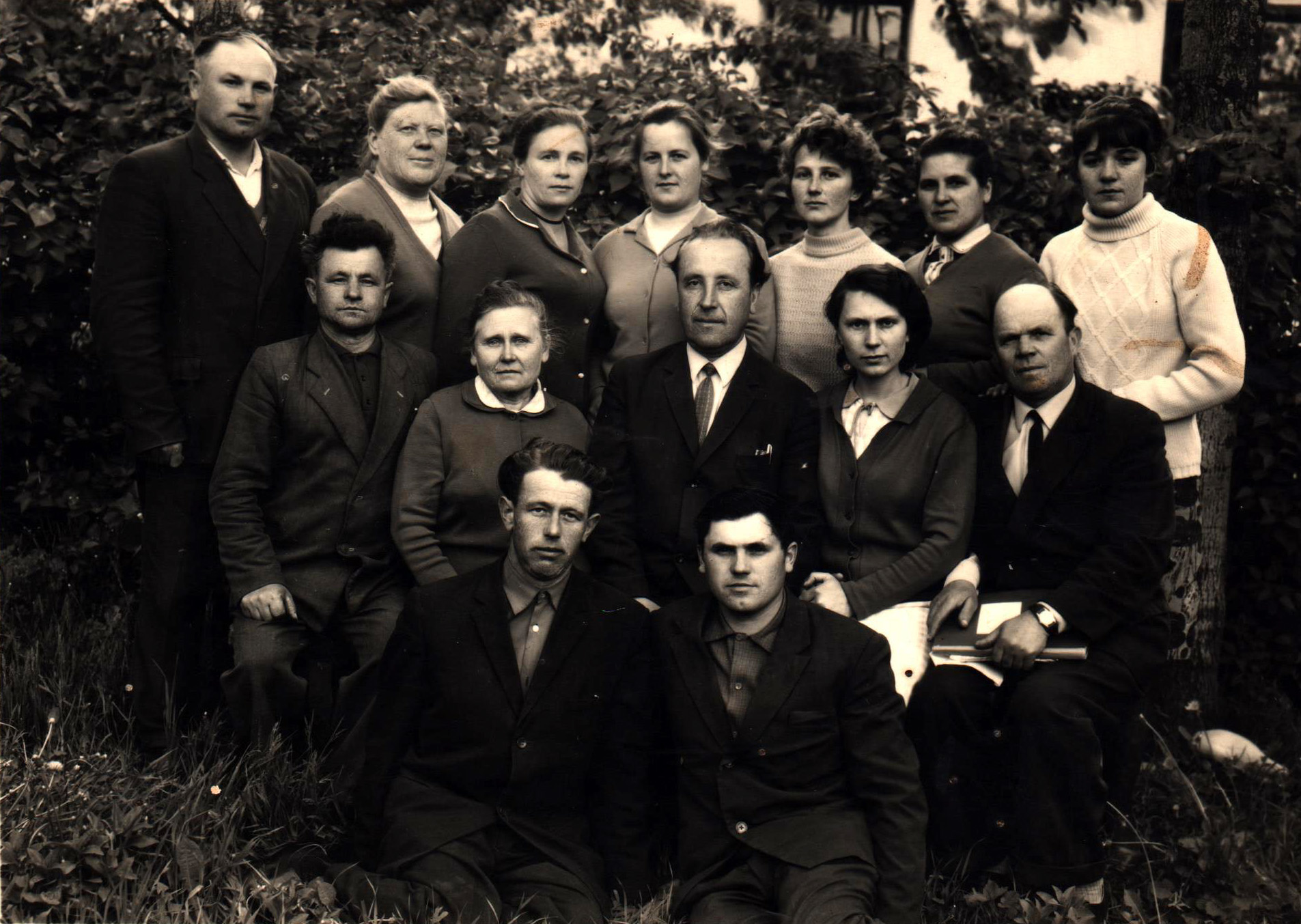 Вчителі верхній ряд зліва направо: Дубик Микола Ілліч, Ковальчук Наталія Сергіївна, Пилипенко Валентина Семенівна, Савченко Надія Антонівна, Радзішевська Алла Володимирівна, Рачук Галина Макарівна, Зінчук Любов Іванівна. Середній ряд: М'ялковський Володимир Михайлович, Біленька Марія Захарівна, Жебрівський Август Павлович, Дійничко Раїса Миколаївна, Андрійчук Андрій Омельянович. Нижній ряд: Ткачук Микола Григорович, Дубик Анатолій Ілліч.